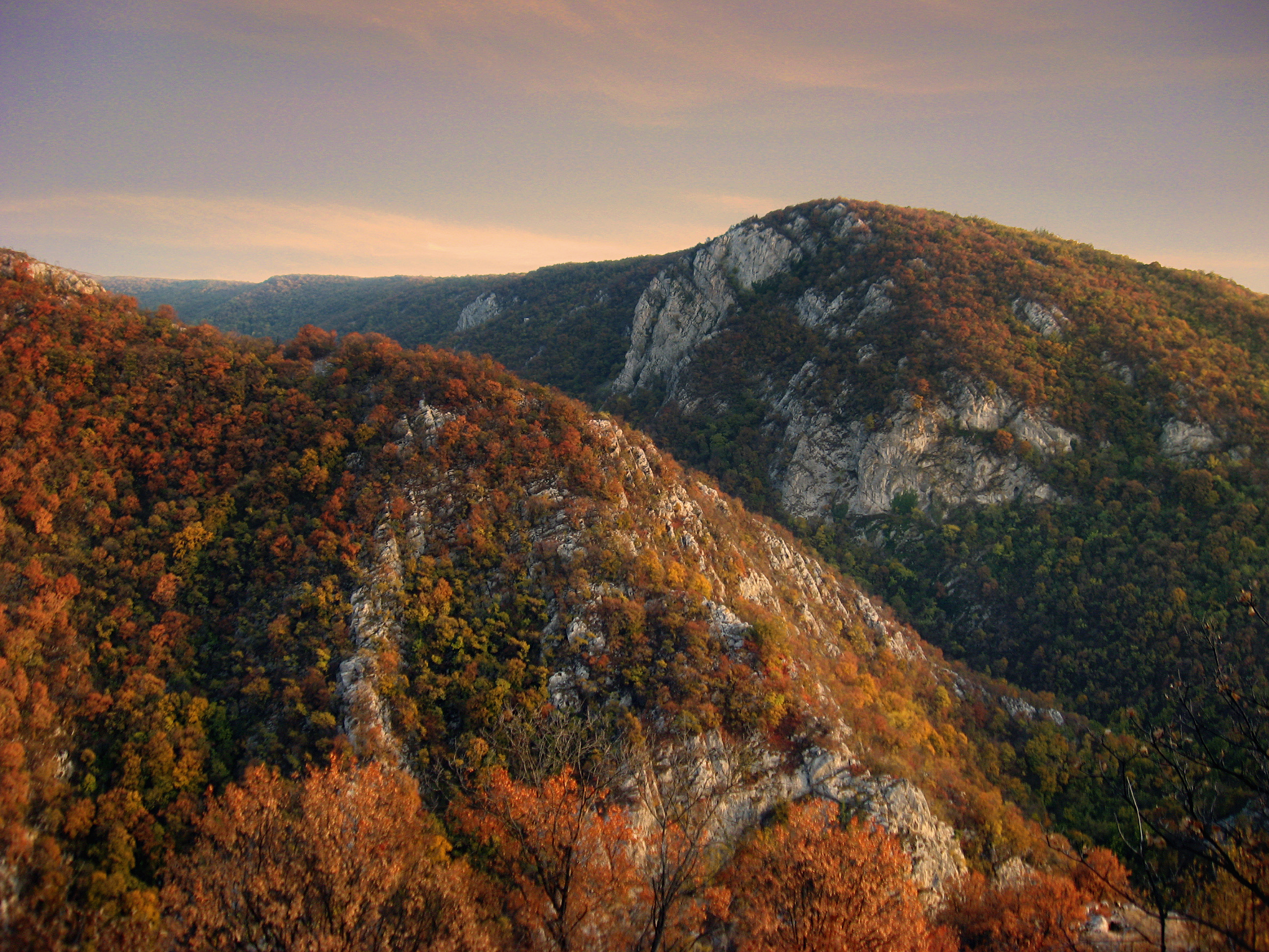 Kucaj mountains, Eastern Serbia